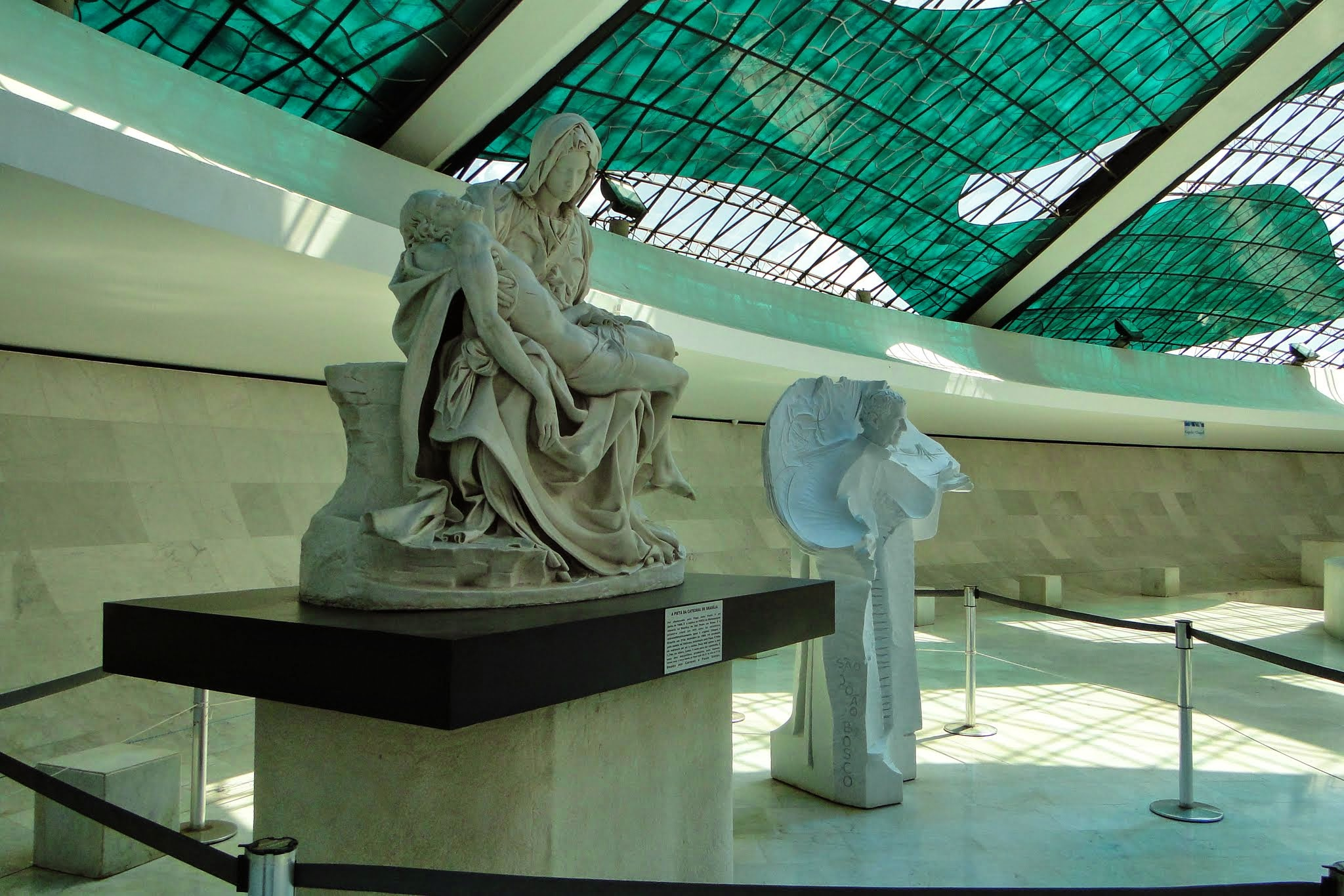 Pietà statue in the Cathedral